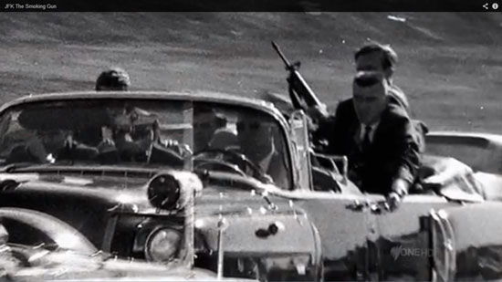 Photograph of Secret Service Agent George W. Hickey carrying an ArmaLite AR-15 shorty after President Kennedy was shot in Dallas, November 22, 1963.